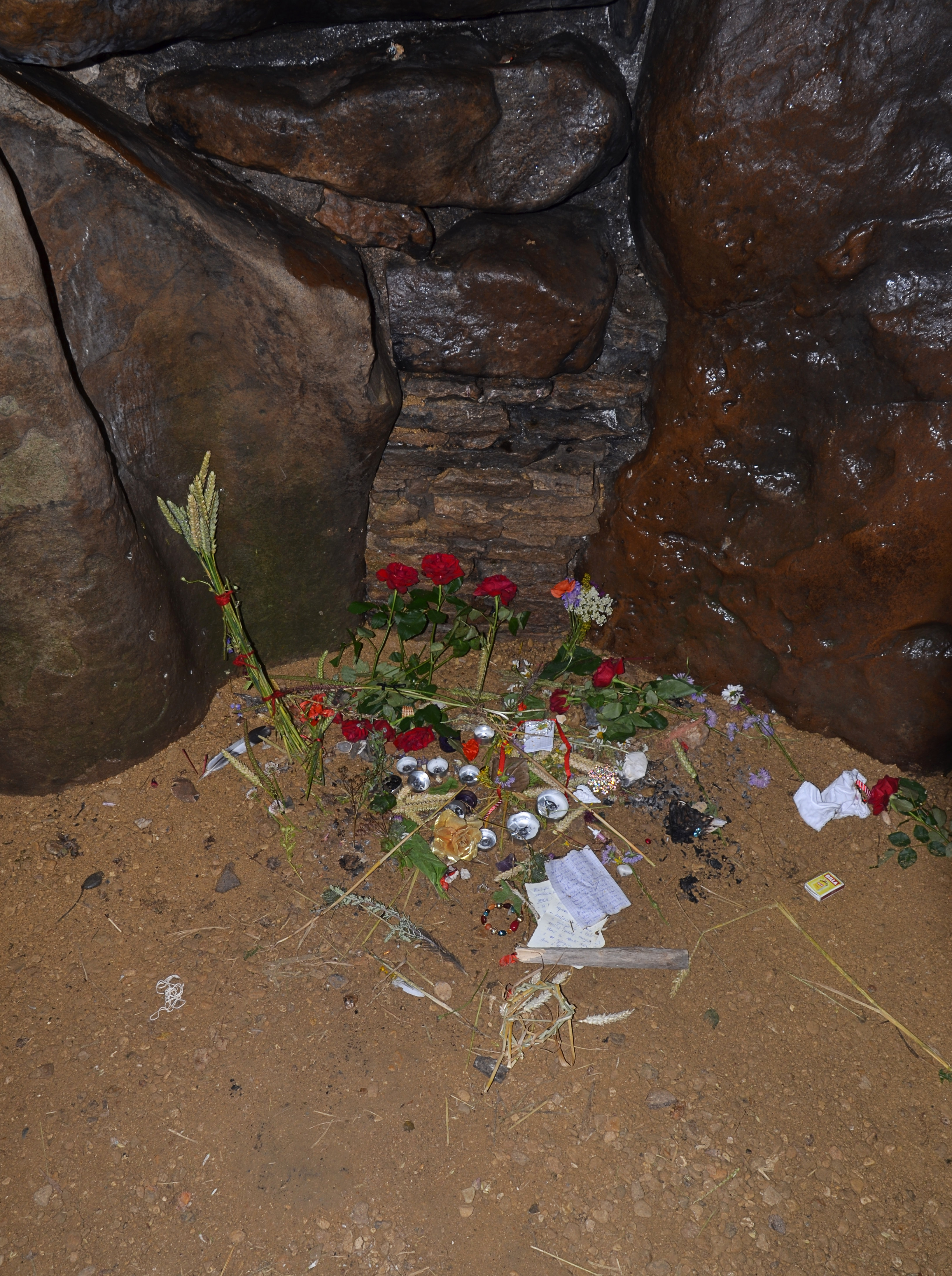 West Kennet long barrow, 800m south-east of Silbury Hill Wikidata has entry Q17648040 with data related to this item.